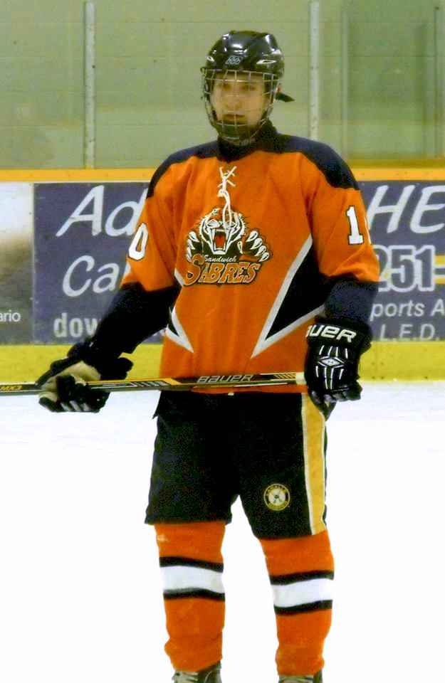 This photo was taken by Devan Mighton during the 2014-15 WECSSAA season.